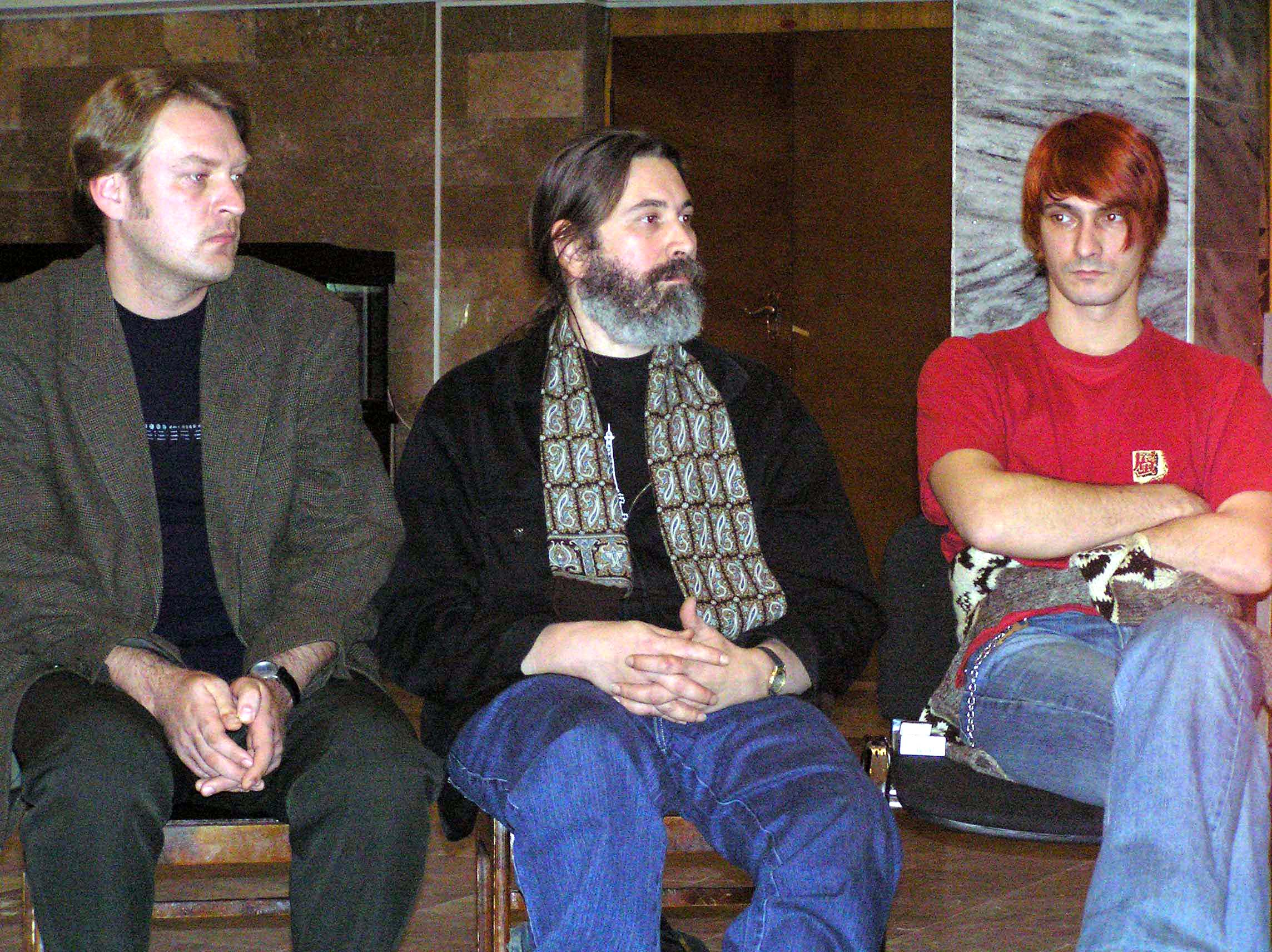 Playwrights Vyacheslav Durnenkov, Vadim Levanov and Yuri Klavdiev (from left to right) at the presentation of the project "Class Act" in Togliatti. Foyer of the branch of the "Koleso" theatre (small stage, now the youth "Dilizhas" theatre), Togliatti, Russia, 2004.